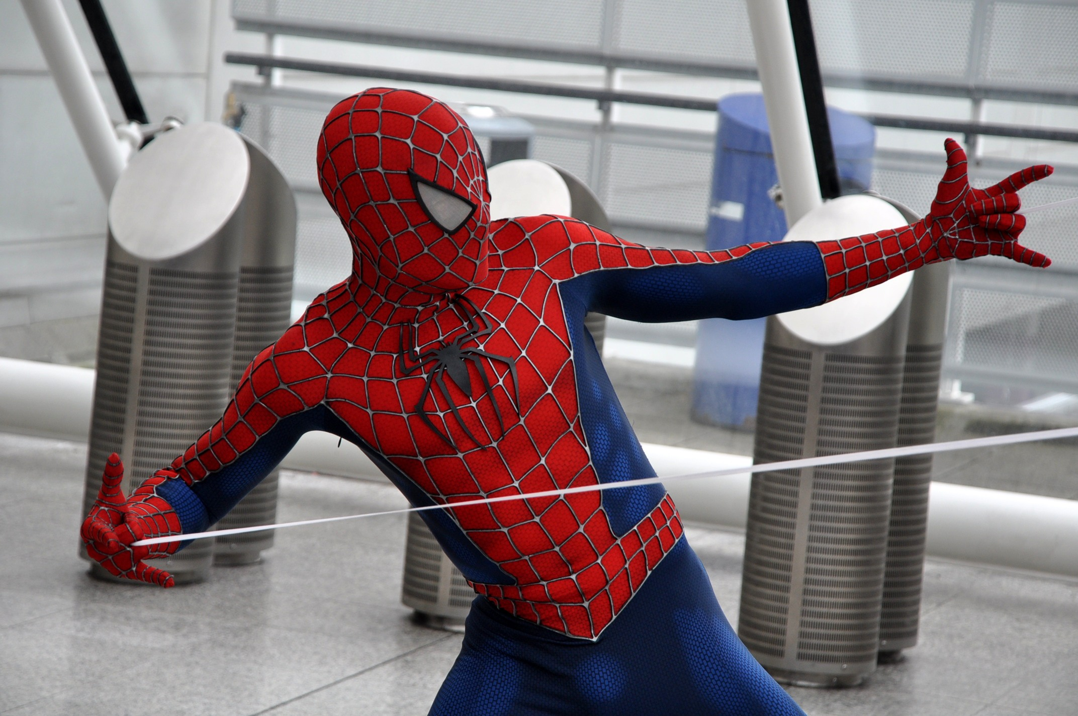 DSC_0234 Cosplay at the Summer 2013 MCM London Comic Con at the ExCeL Exhibition Centre.